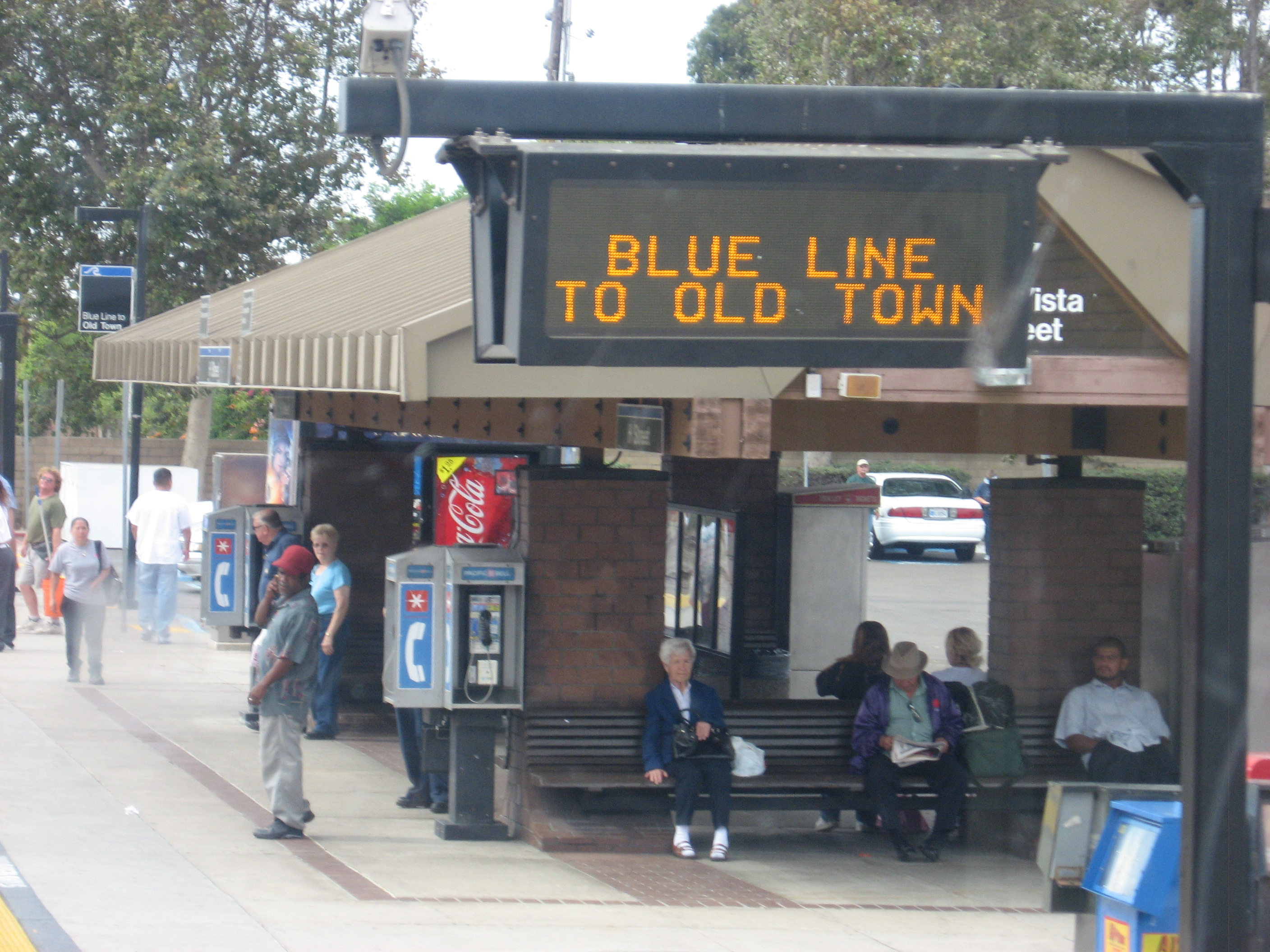 Palomar Street Trolley Station